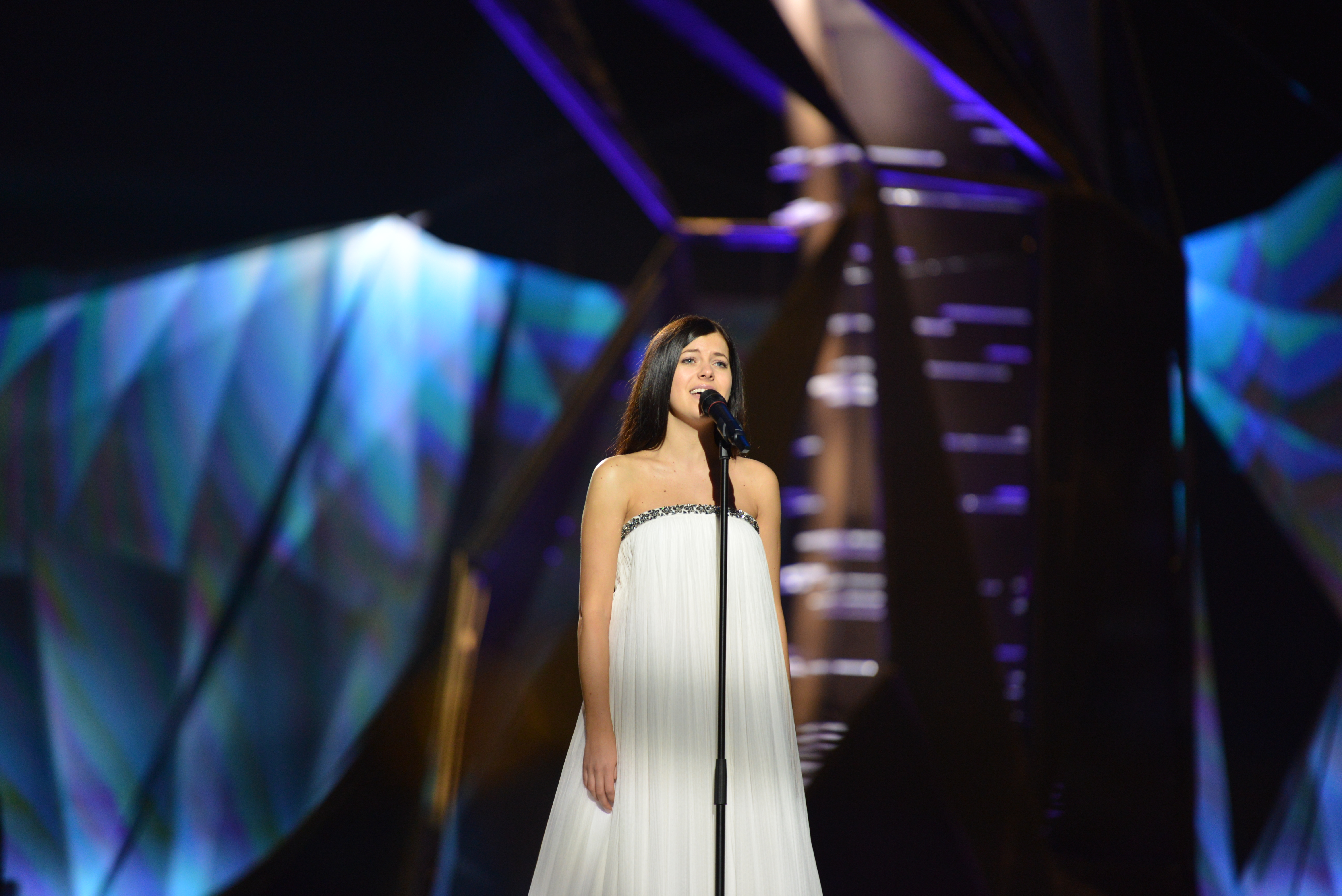 Birgit representing Estonia with the song "Et uus saaks alguse" during the first dress rehearsal of the first semi final of the Eurovision Song Contest 2013 in Malmö. (Help translate this text)